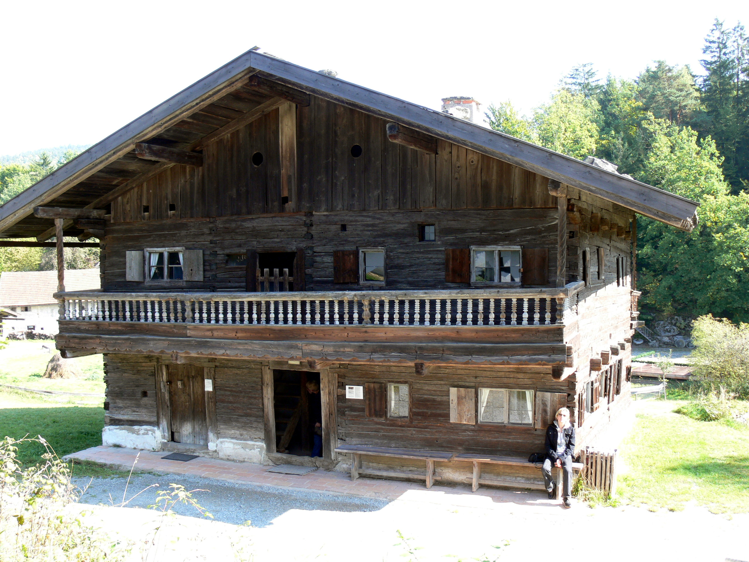 Open air museum Tittling. School and town hall ( 1670 ) of Simbach near Landau. Oldest elementary school building in Germany.